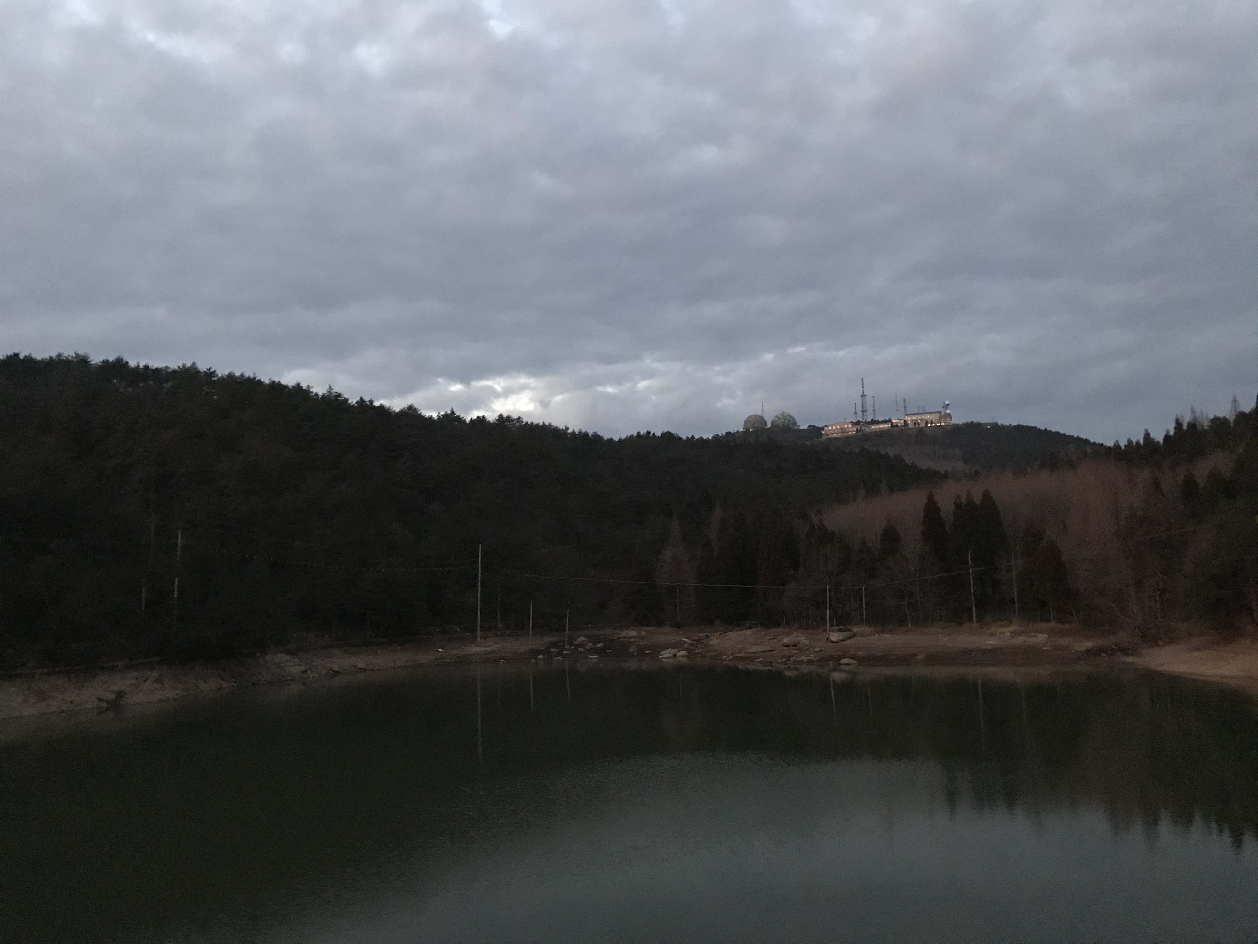 201912 Xiaoxihu and the TV Tower & Radar Station